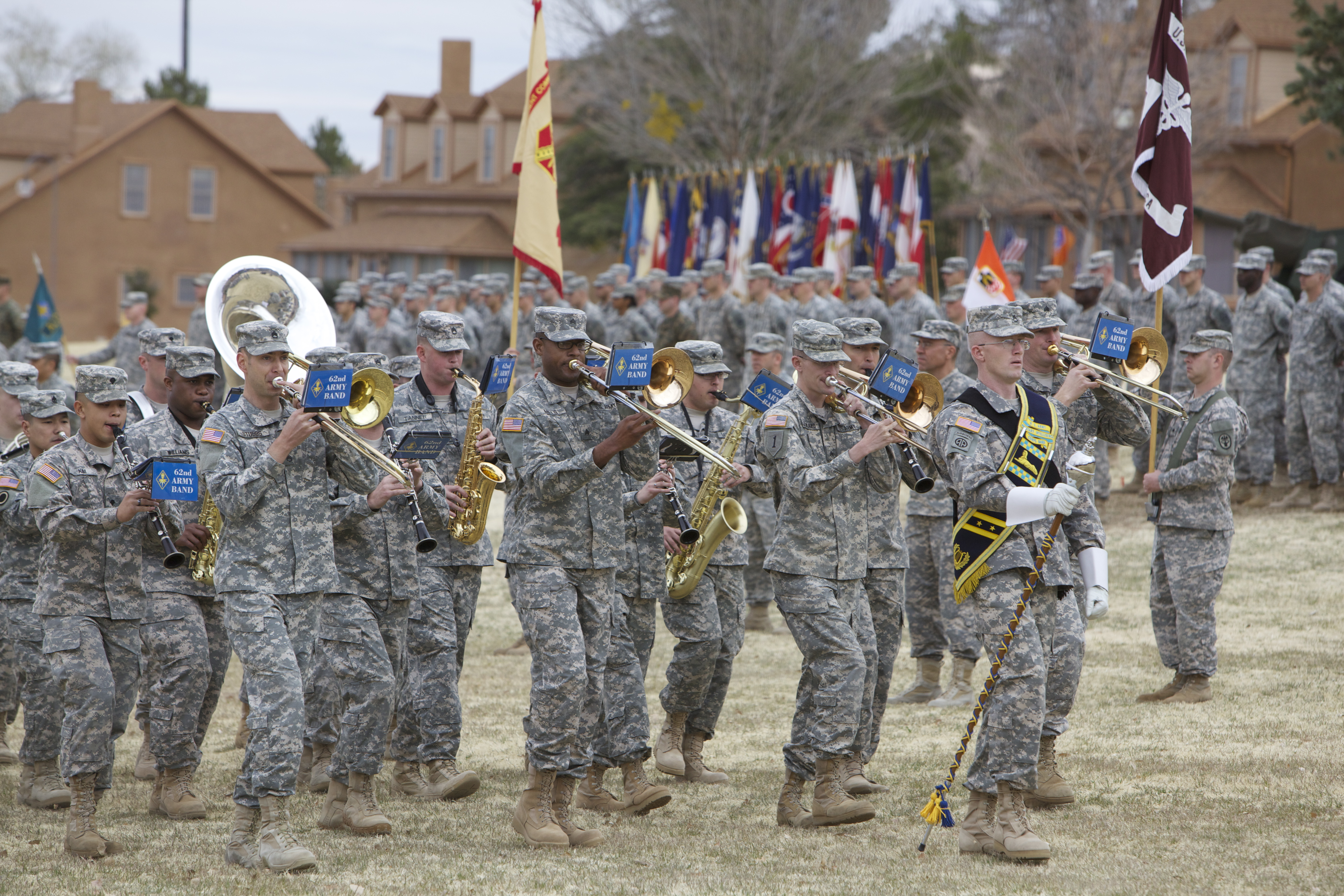 Members of the 62nd Army Band perform during the relinquishment of command ceremony for Major General Gregg C. Potter, Commanding General United States Army Intelligence Center of Excellence and Fort Huachuca, held on Brown Parade Field, Fort Huachuca, AZ, January 24, 2013. Major General Gregg C. Potter will be moving on to a new assignment as Deputy Chief of Staff, Intelligence, International Security Force, Operation Enduring Freedom in Afghanistan.